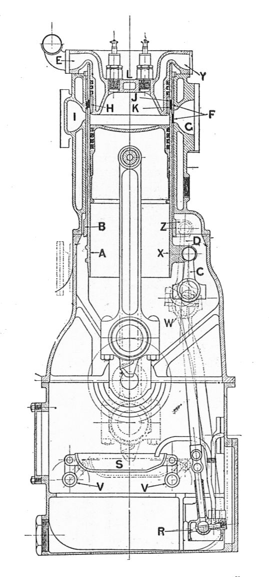 Fig. 104 Cross section of Knight-Daimler engine The Knight-Daimler sleeve valve engine, using Knight's double sleeve valves.